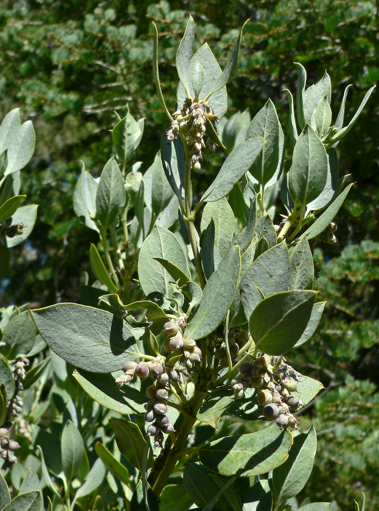 Garrya flavescens — Ashy silktassel. In Kyle Canyon (elev. about 2300 m), Spring Mountains, southern Nevada.